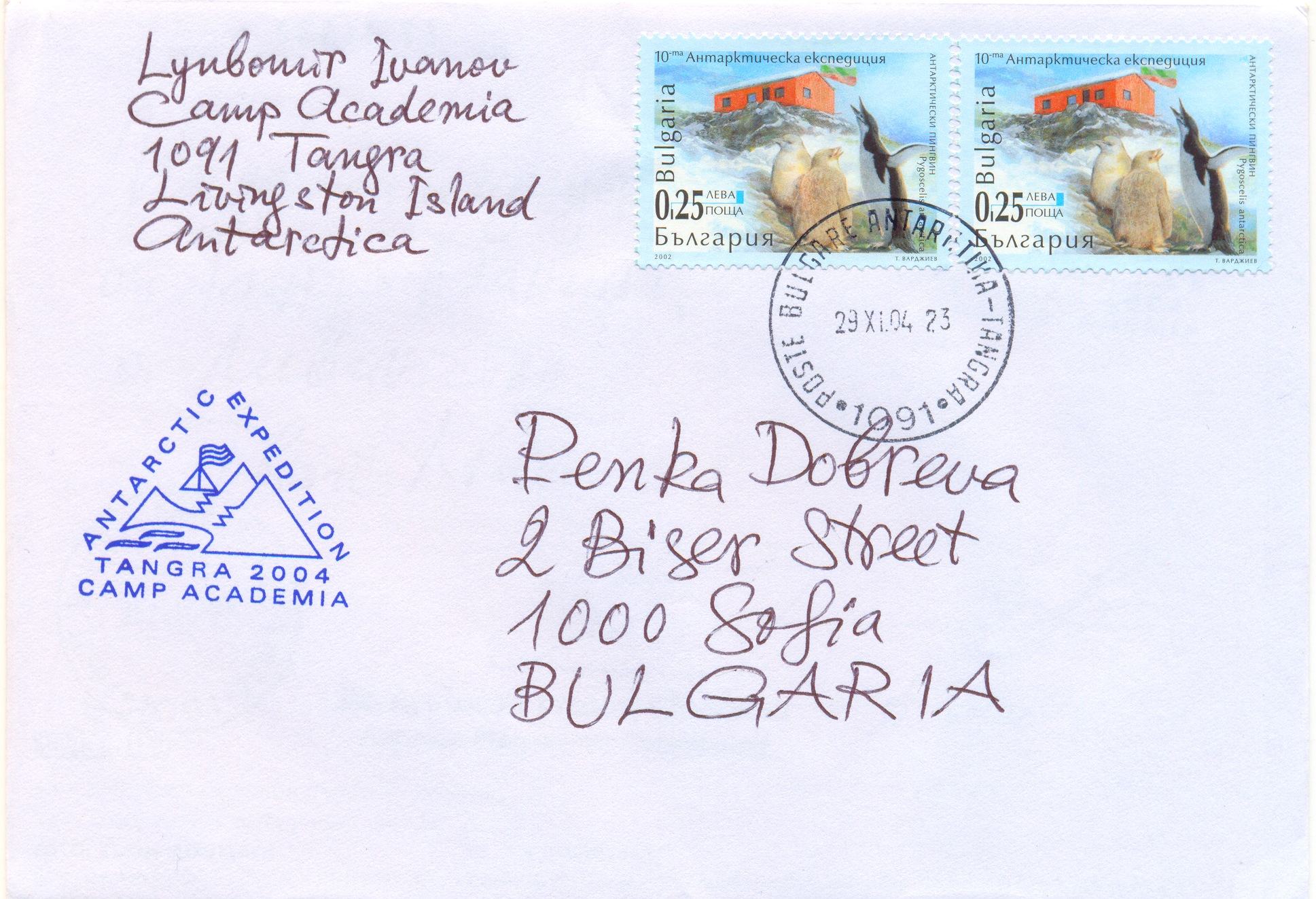 Letter delivered by the Bulgarian Posts from Camp Academia, Livingston Island (Antarctica) to Sofia, Bulgaria.